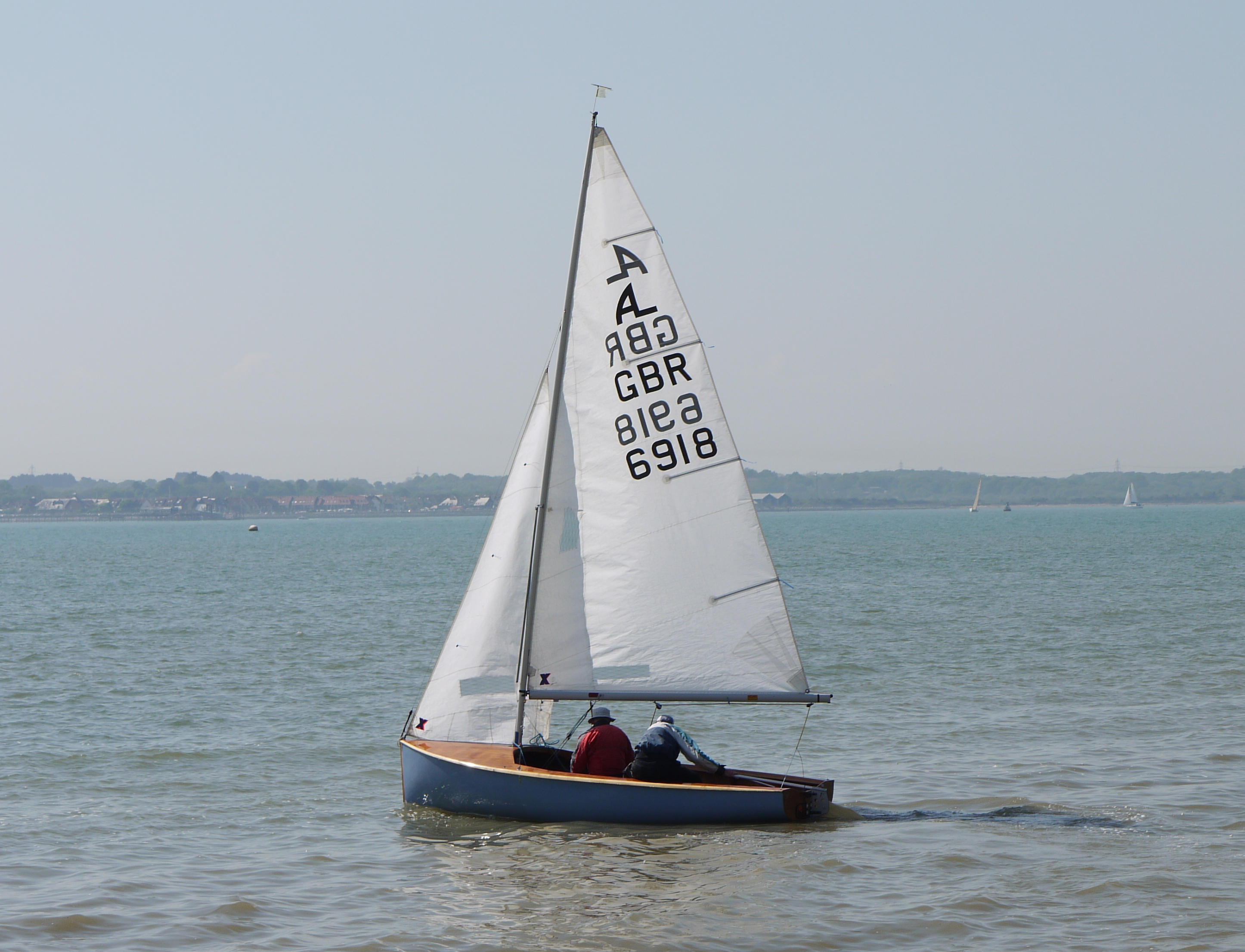 Photo of an Albacore dinghy